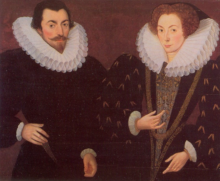 Sir John Harington and his wfie, Mary Rogers, Lady Harington, c. 1590-95, oil on panel, 76.2 × 92.9 cm (30 × 36.6 in)